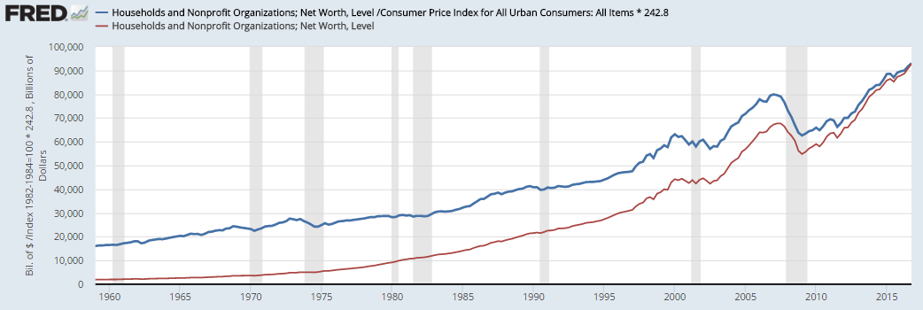 U.S. Household and Non-Profit Net Worth, nominal and real (adjusted for inflation) through Q4 2016.